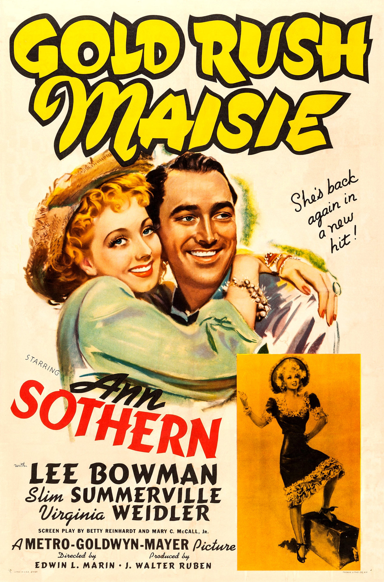 Poster for the 1940 film Gold Rush Maisie.. The item has no copyright markings on it as can be seen in the links above. At bottom left is Litho in USA and {looks like} #4283. At bottom right is Tooker Litho Co. NY-they printed the poster.